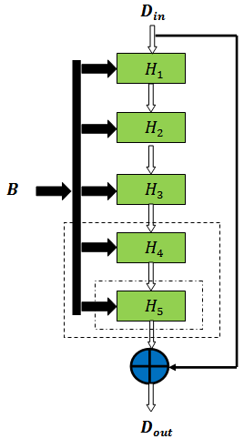 Scheme of upload algorithm H in Haval